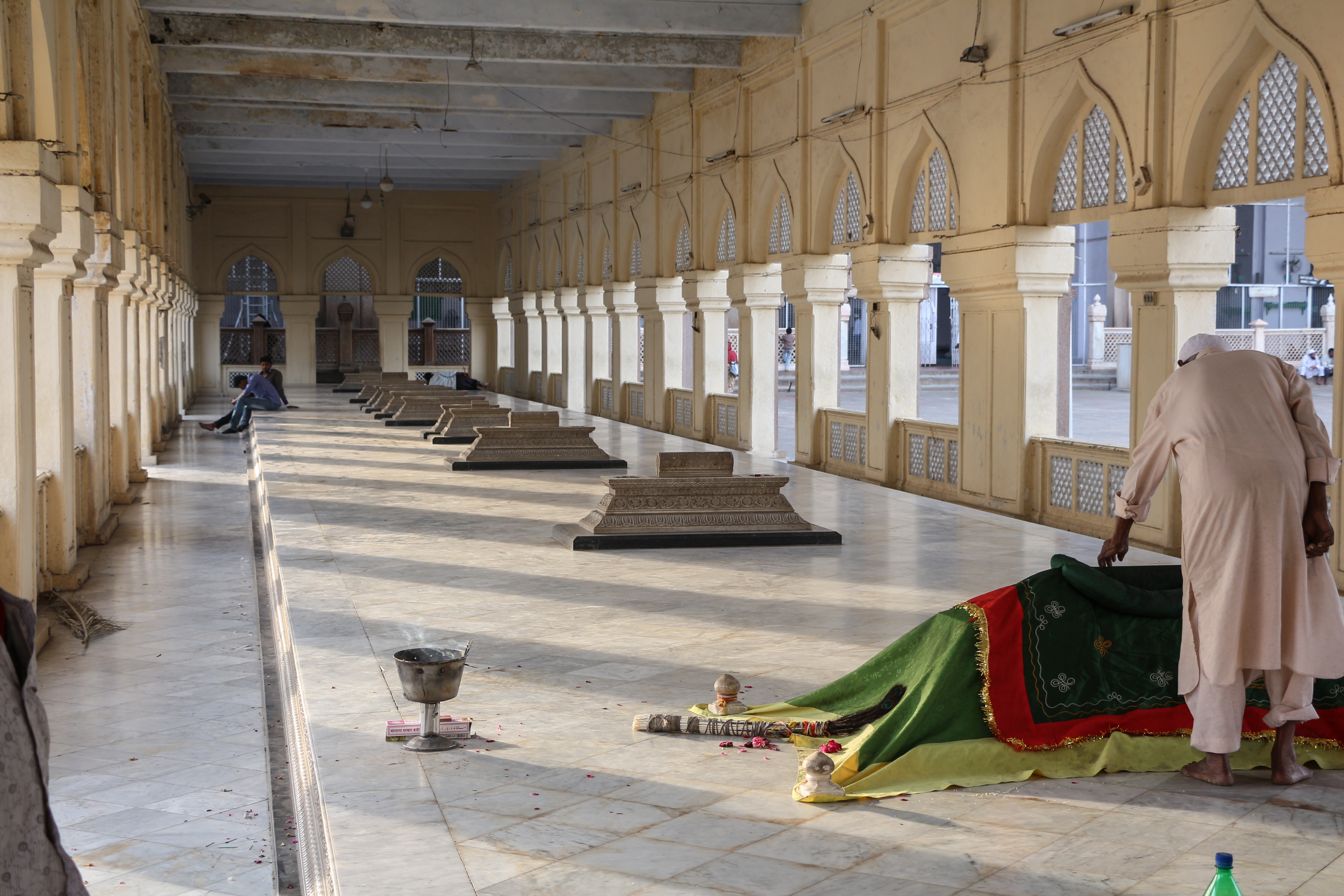 Graves in the Mecca Masjid, Hyderabad, India